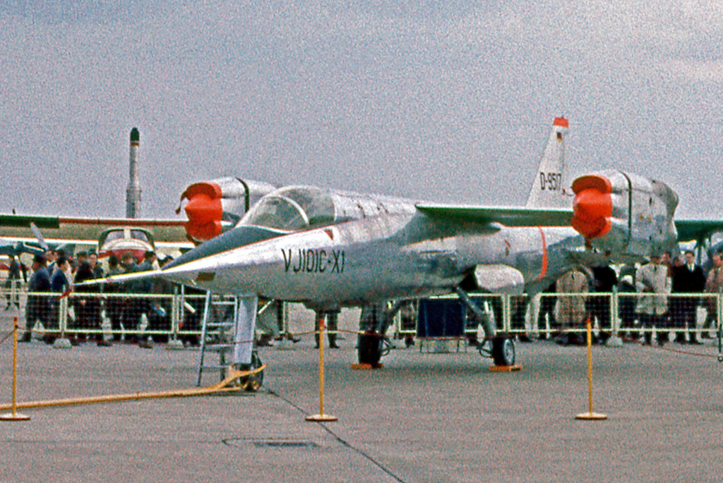 EWR VJ 101C 1 D-9517 at the 1964 Hanover Air Show